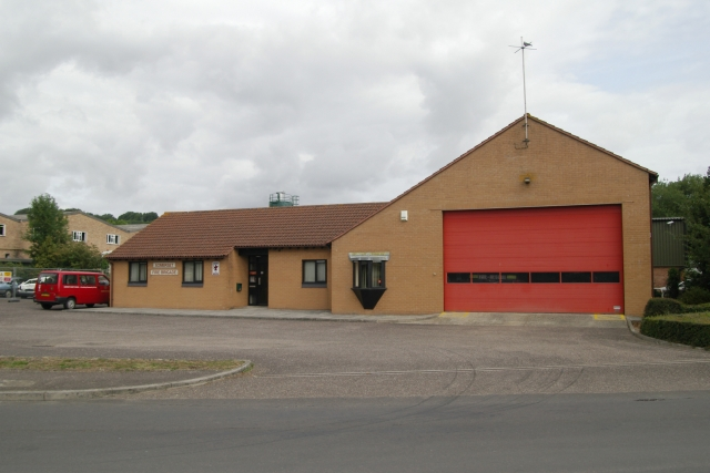 Crewkerne fire station. Crewkerne fire station, Blacknell Lane, Crewkerne, Somerset.